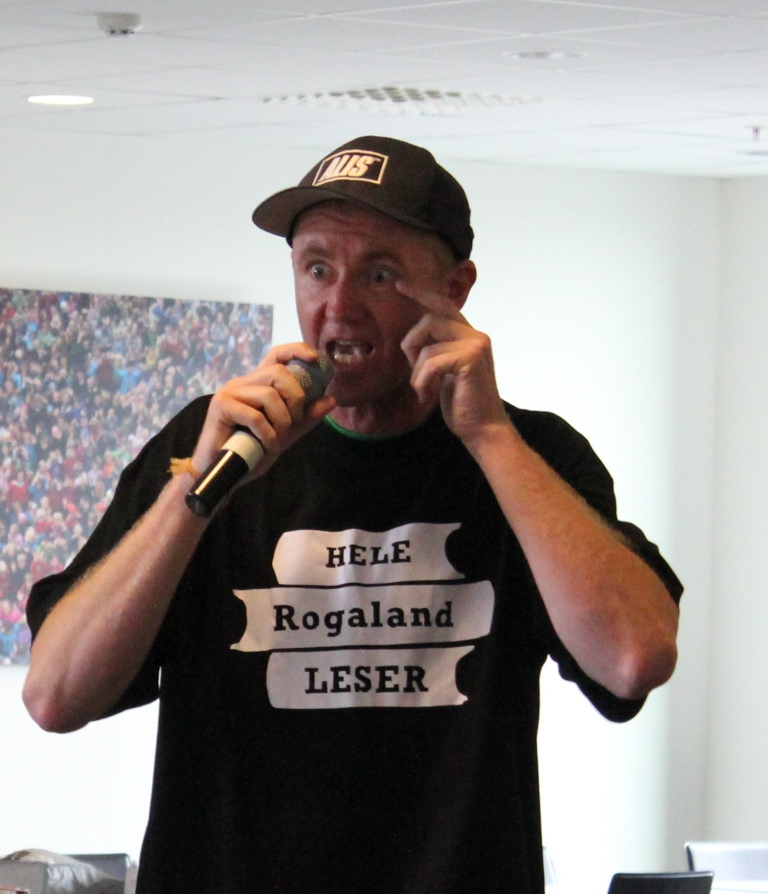 Atlars på turne for Hele Rogaland Leser. Her på Forum Jæren.